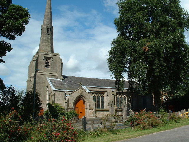 Immanuel parish church, Feniscowles, Lancashire, seen from the south